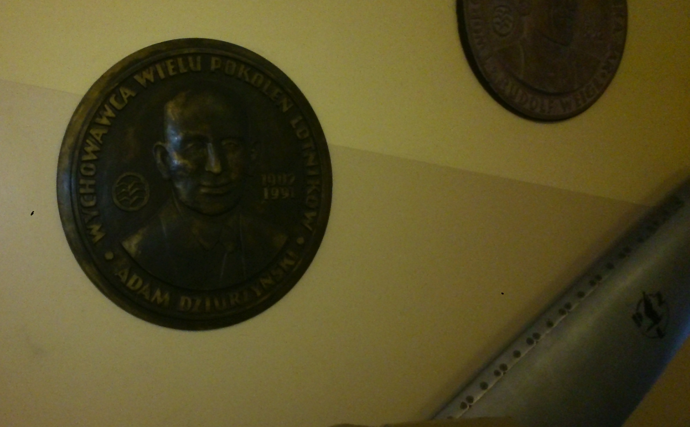 Plaque memorizing Andrzej Dziurzyński, Polish pilot, in gliding school on Żar, Poland.